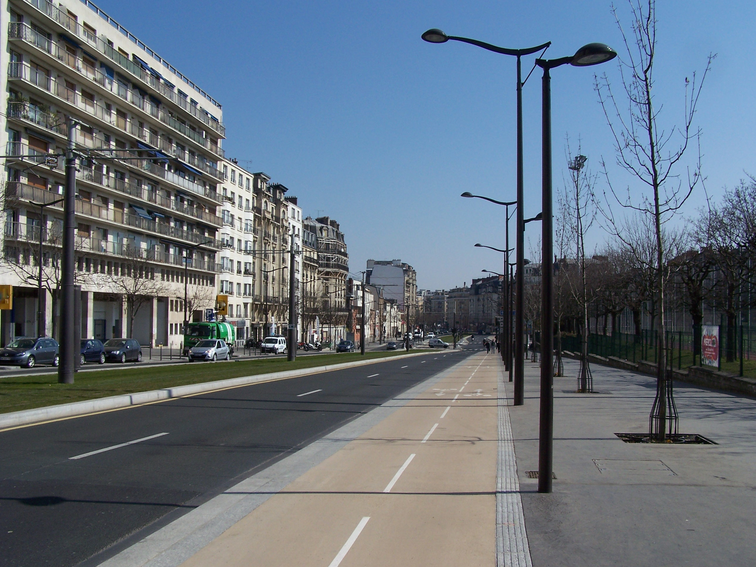 View of the boulevard with the tramway line 3a at the level of the porte de Charenton